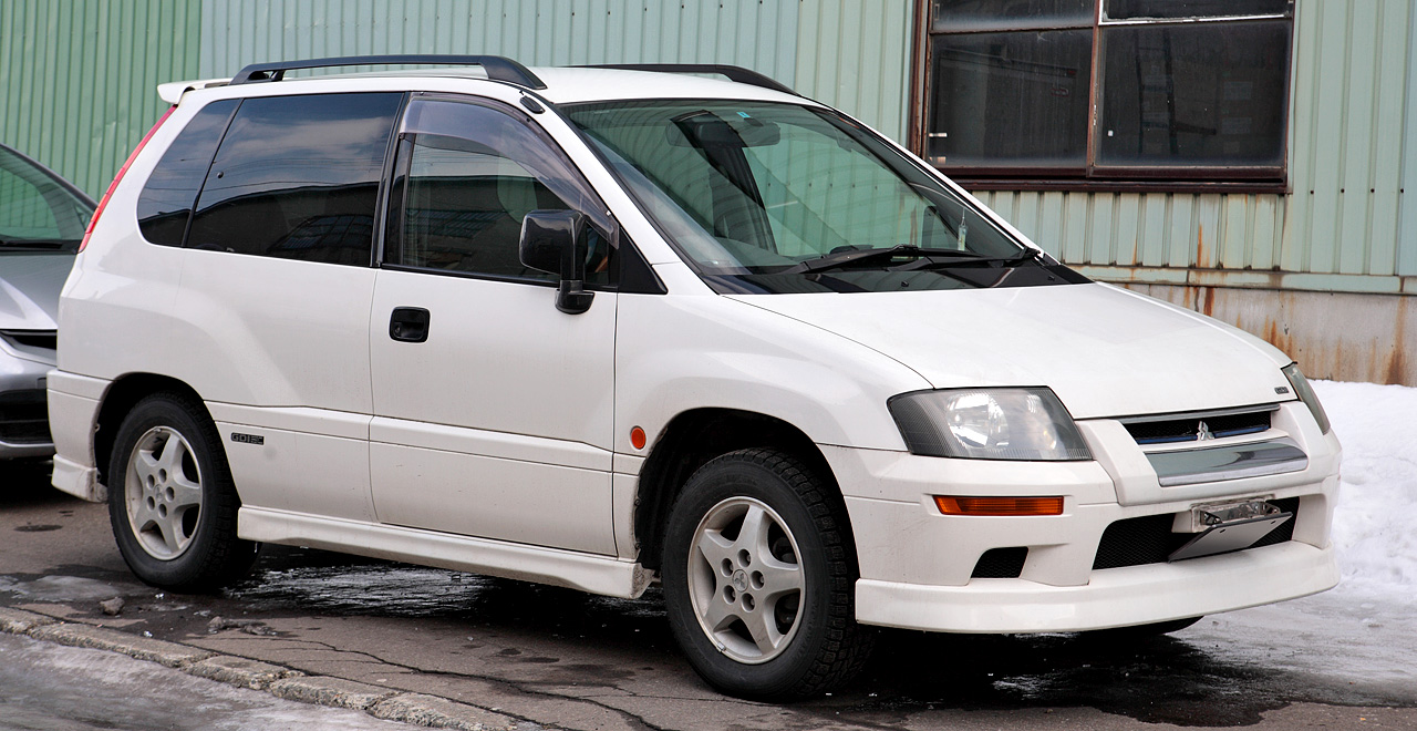 Second generation Mitsubishi RVR X2 ( N61W or N71W )